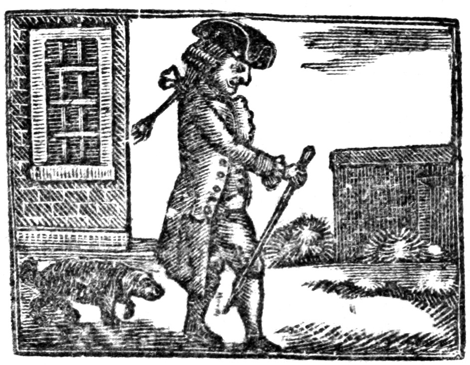 In Europe, Asia, and Africa, during nineteen years. Glasgow : Printed for M'Kenzie & Hutchison, booksellers, 16, Saltmarket, [1818-1819?].